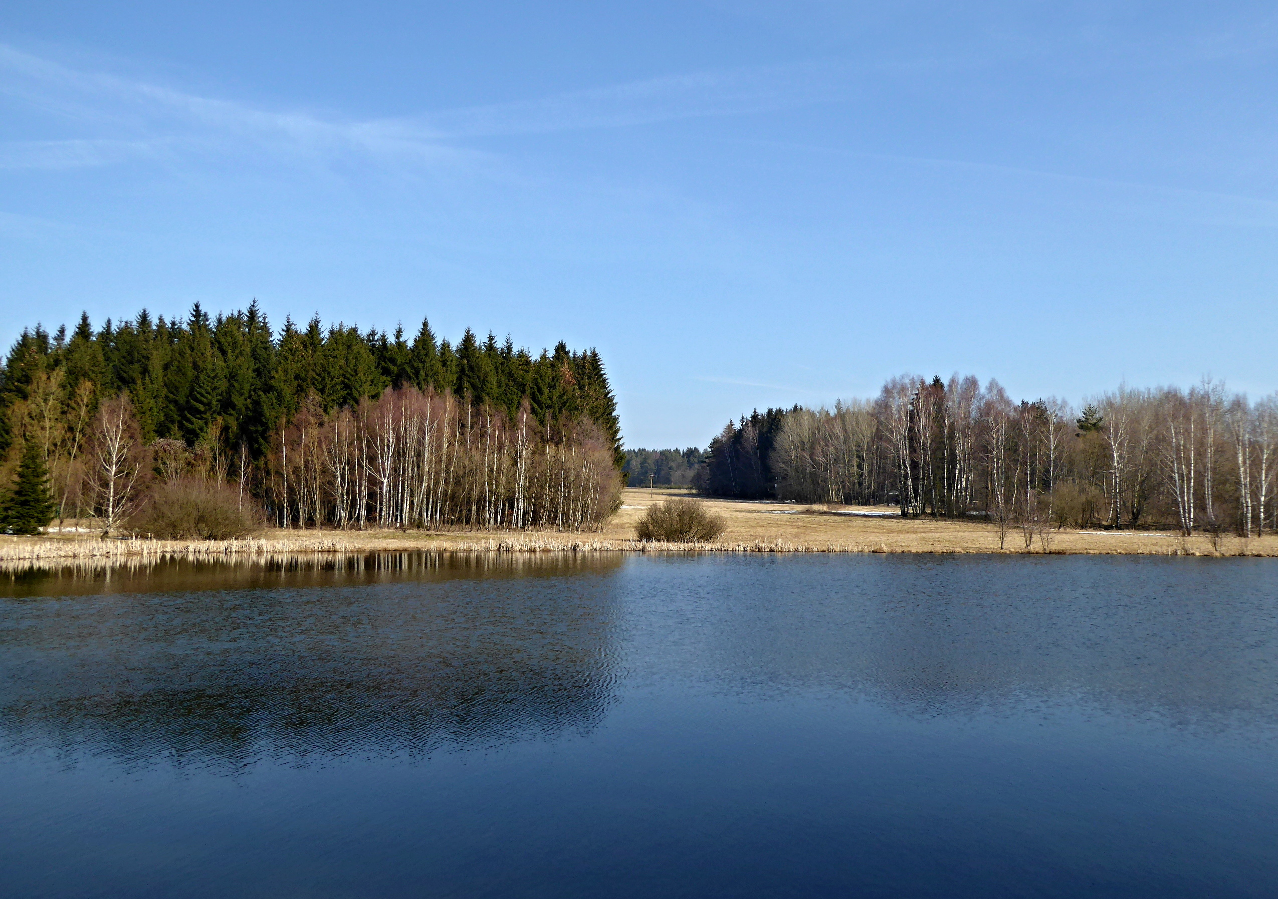 Natural Monument "Ratajské" ponds and locality of European importance in the Czech Republic. Pond system of three reservoirs was created in the course of a hundred years. Photo location: Czechia, Pardubice Region, Hlinsko town.